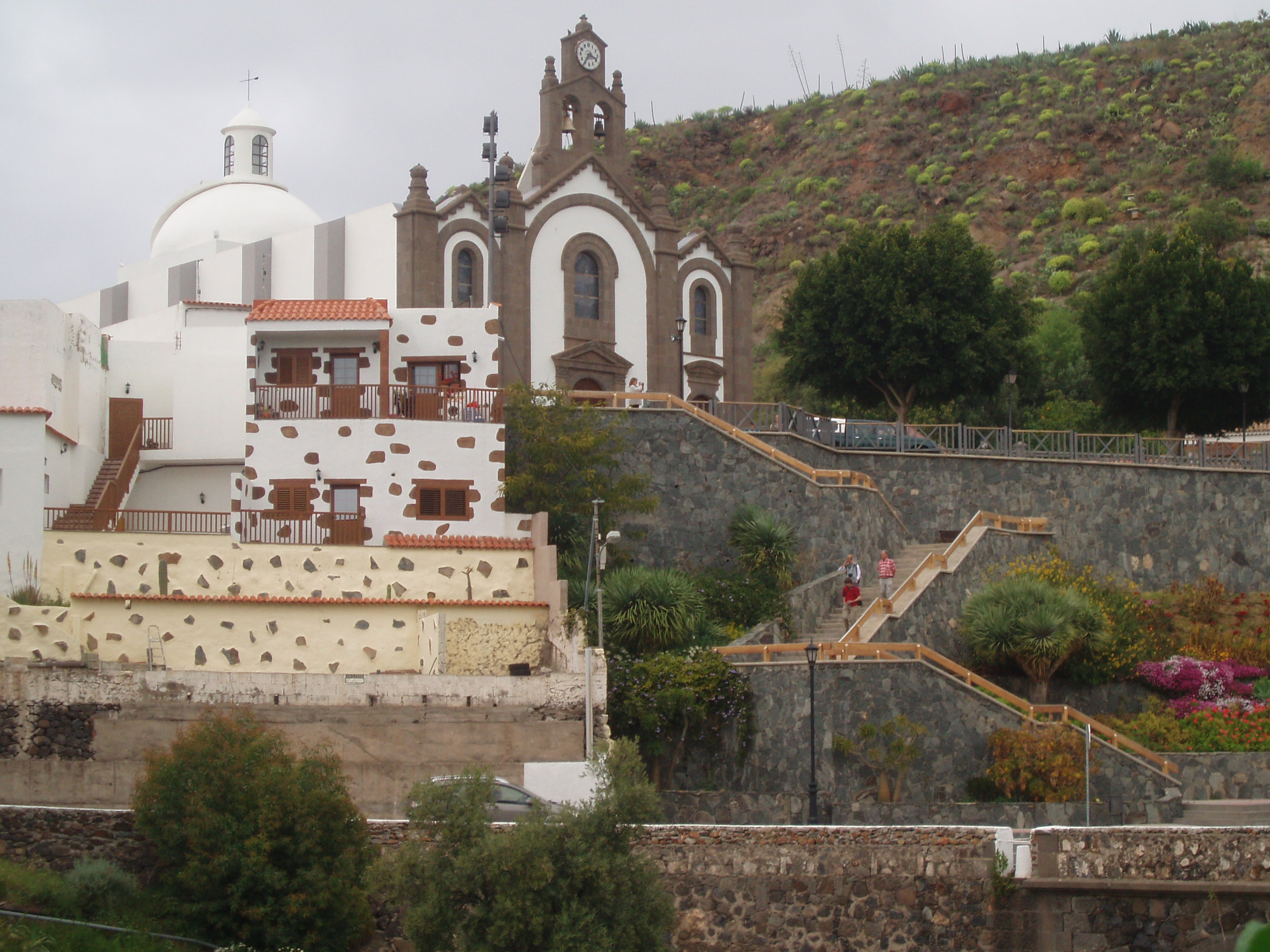 Church in Santa Lucia de Tirajana